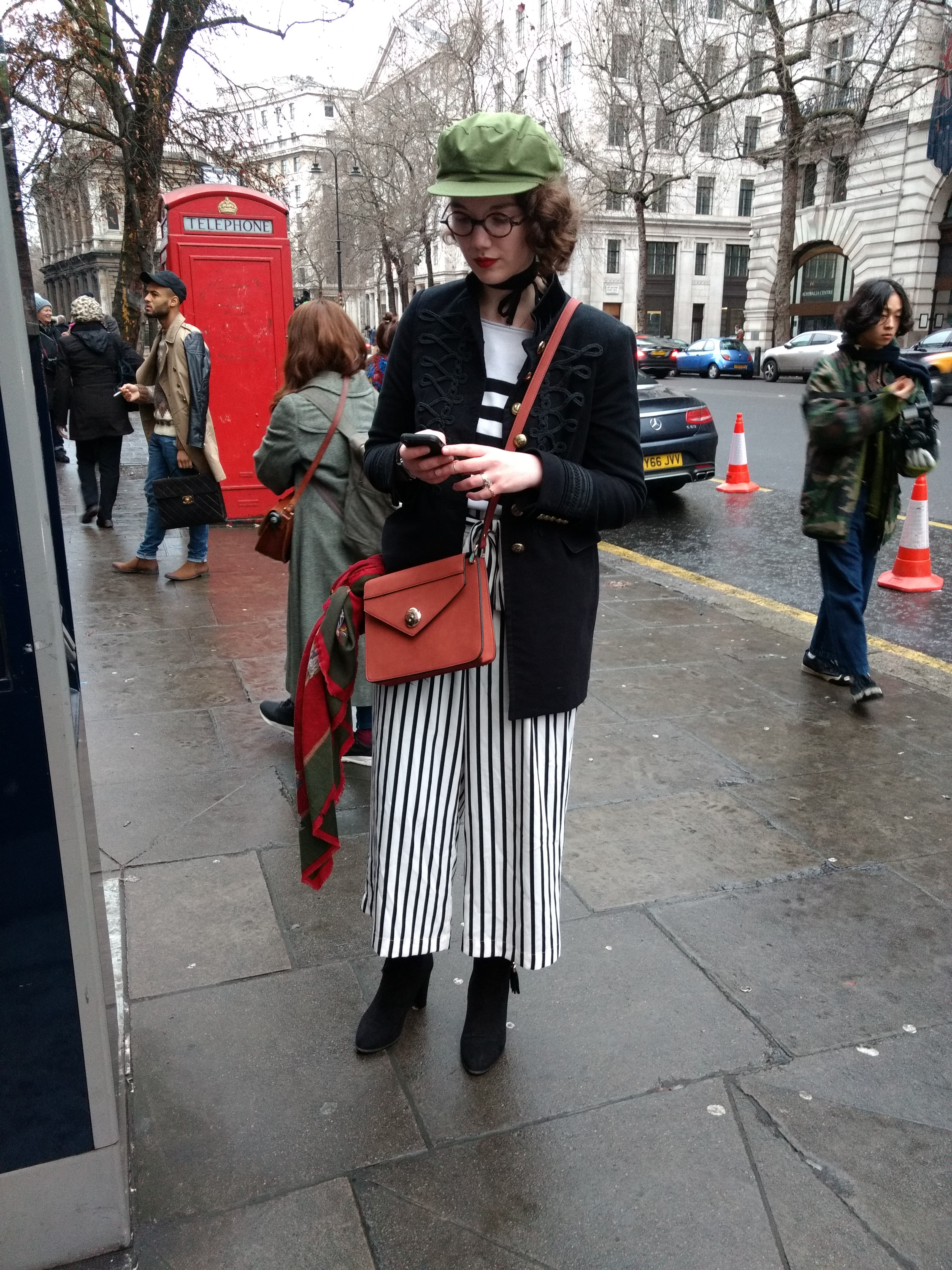 London Fashion Week Men's January 2017